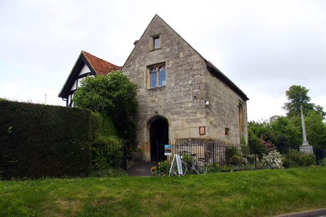 The Chapel of Jesus of Bethlehem (Champs Chapel, middle) and attached priest's house (left), East Hendred, Oxfordshire (formerly Berkshire). The building is now East Hendred Museum. On the right is the parish war memorial.